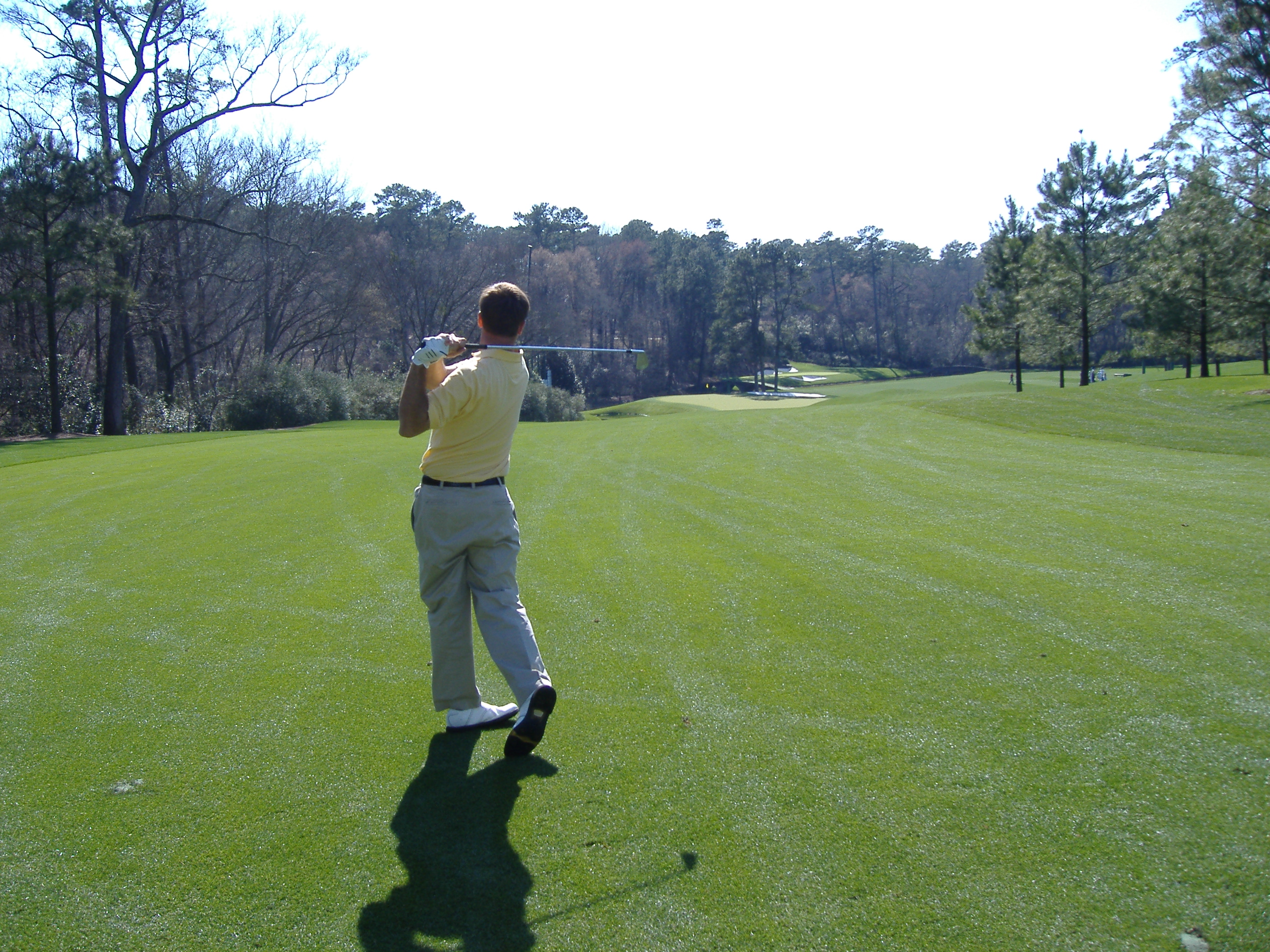 Florian Fritsch hitting a #3 iron into the 11th green, Augusta National Golf Club. He missed the Birdie putt.